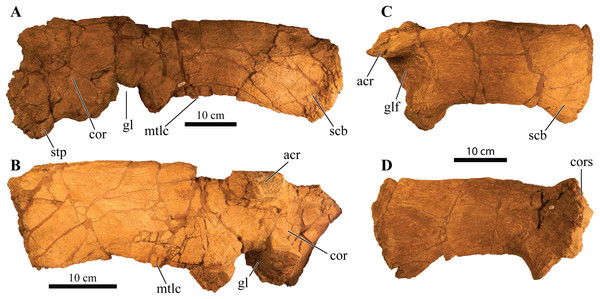 Photographs of the left and right scapulae and right coracoid of Akainacephalus johnsoni (UMNH VP 20202). Right scapula and coracoid in (A), medial; and (B), lateral views. Left scapula in (C), lateral; and (D), medial views. Study sites: acr, acromium; cor, coracoid; gl, glenoid; glf, glenoid fossa; mtlc, enthesis of M. triceps longus caudalis; scb, scapular blade; stp, sternal process.